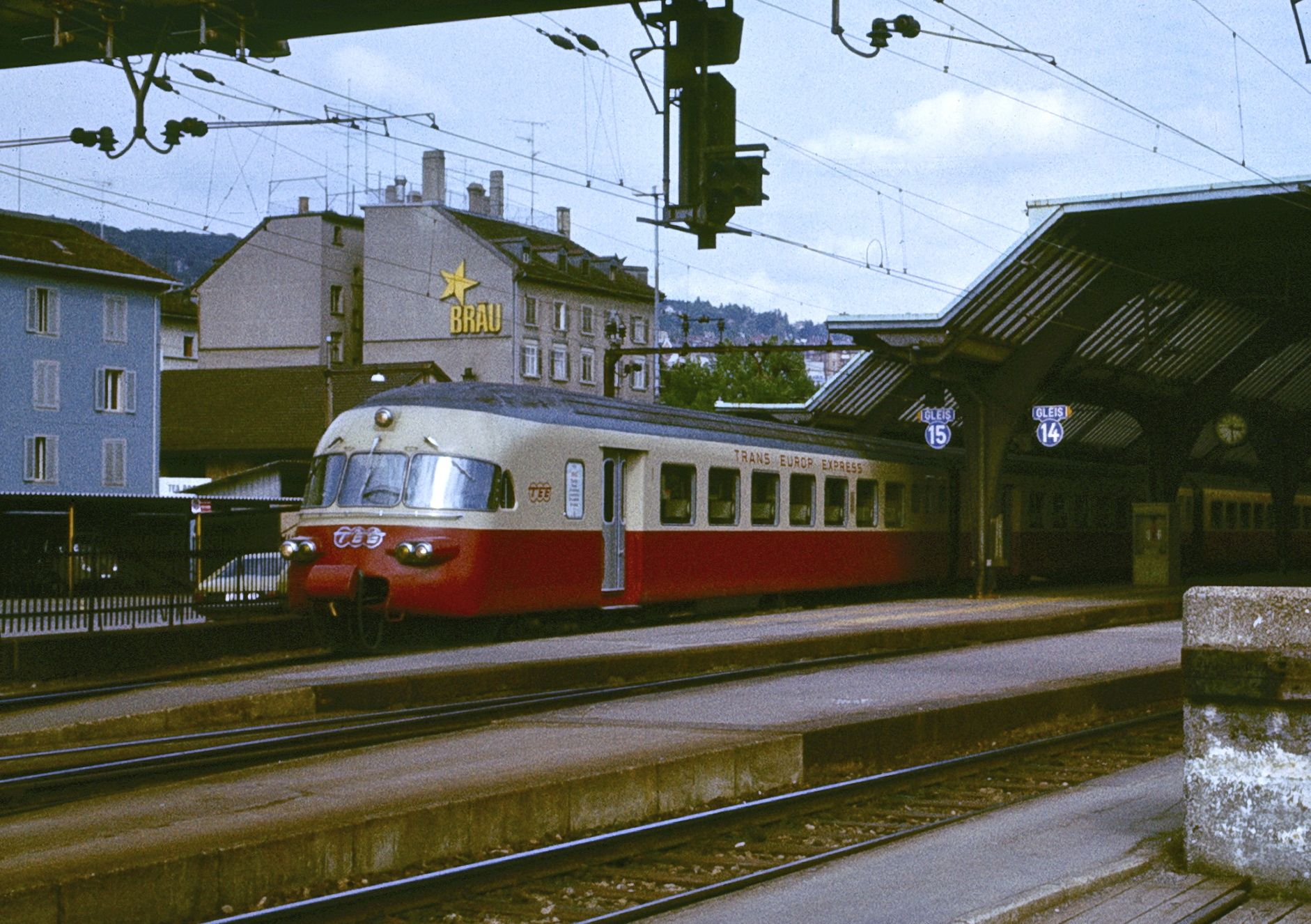 The Trans Europ Express train Iris starting to depart Zürich Hbf. (main station) for Brussels. The train is a type RAe TEE II quadruple-voltage trainset, built in 1961.